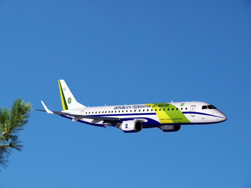 Embraer 190 aircraft, designated VC-2 by the Brazilian Air Force, tail number 2900, used for short-range presidential travel.